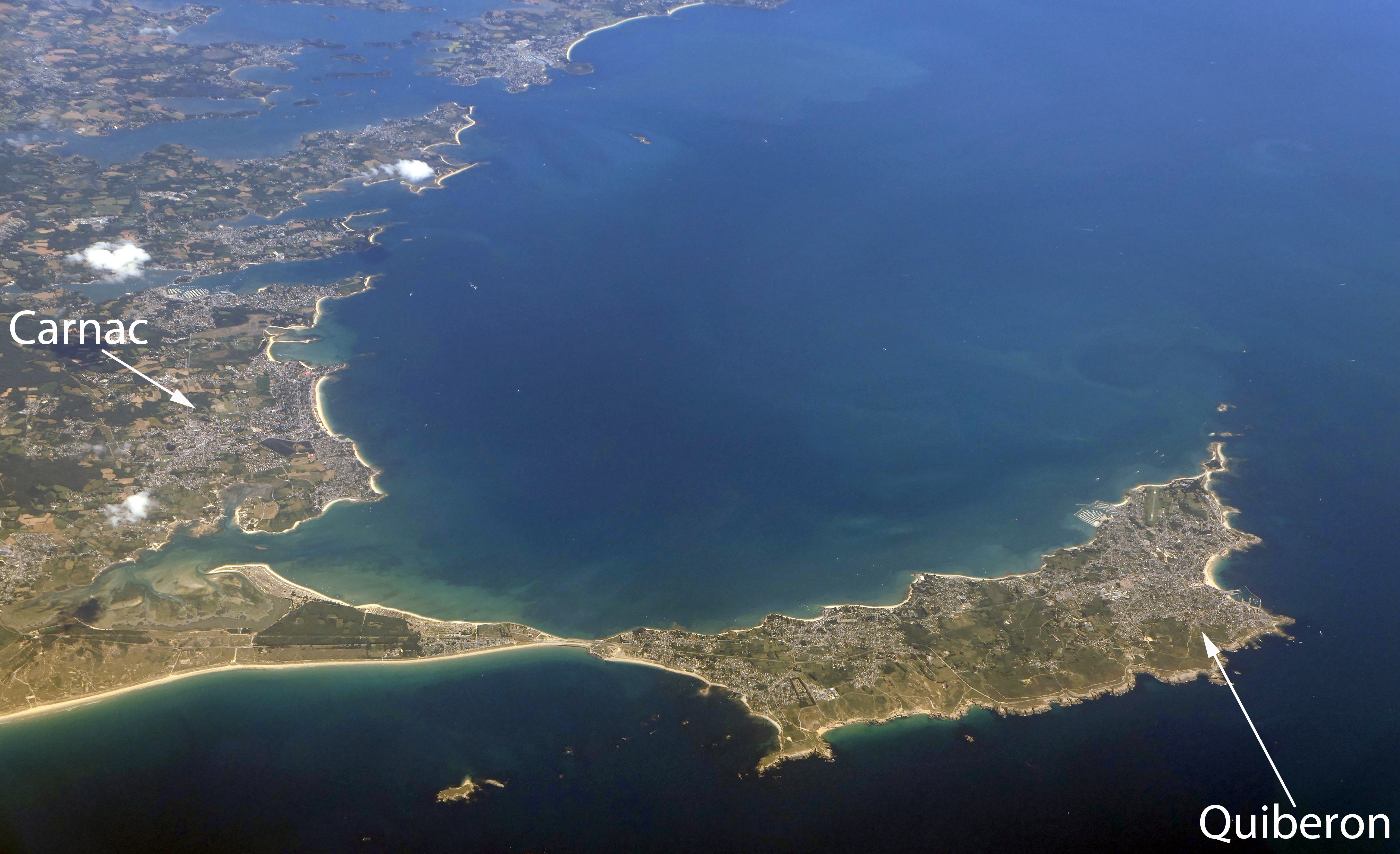 An aerial view of the Quiberon peninsula in Brittany, with the towns of Quiberon and Carnac labelled.